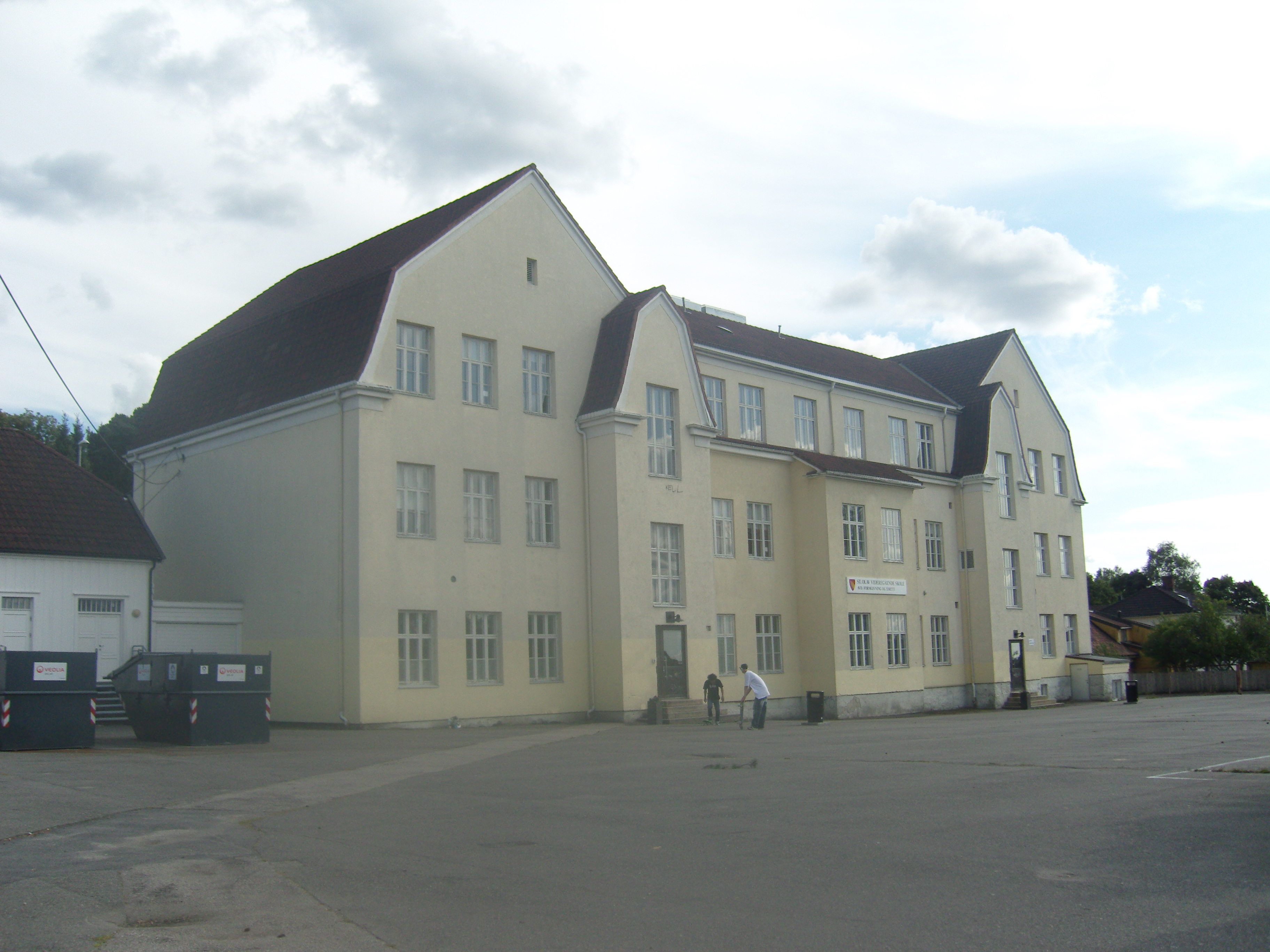 St. Olav secondary school in Sarpsborg, part of school